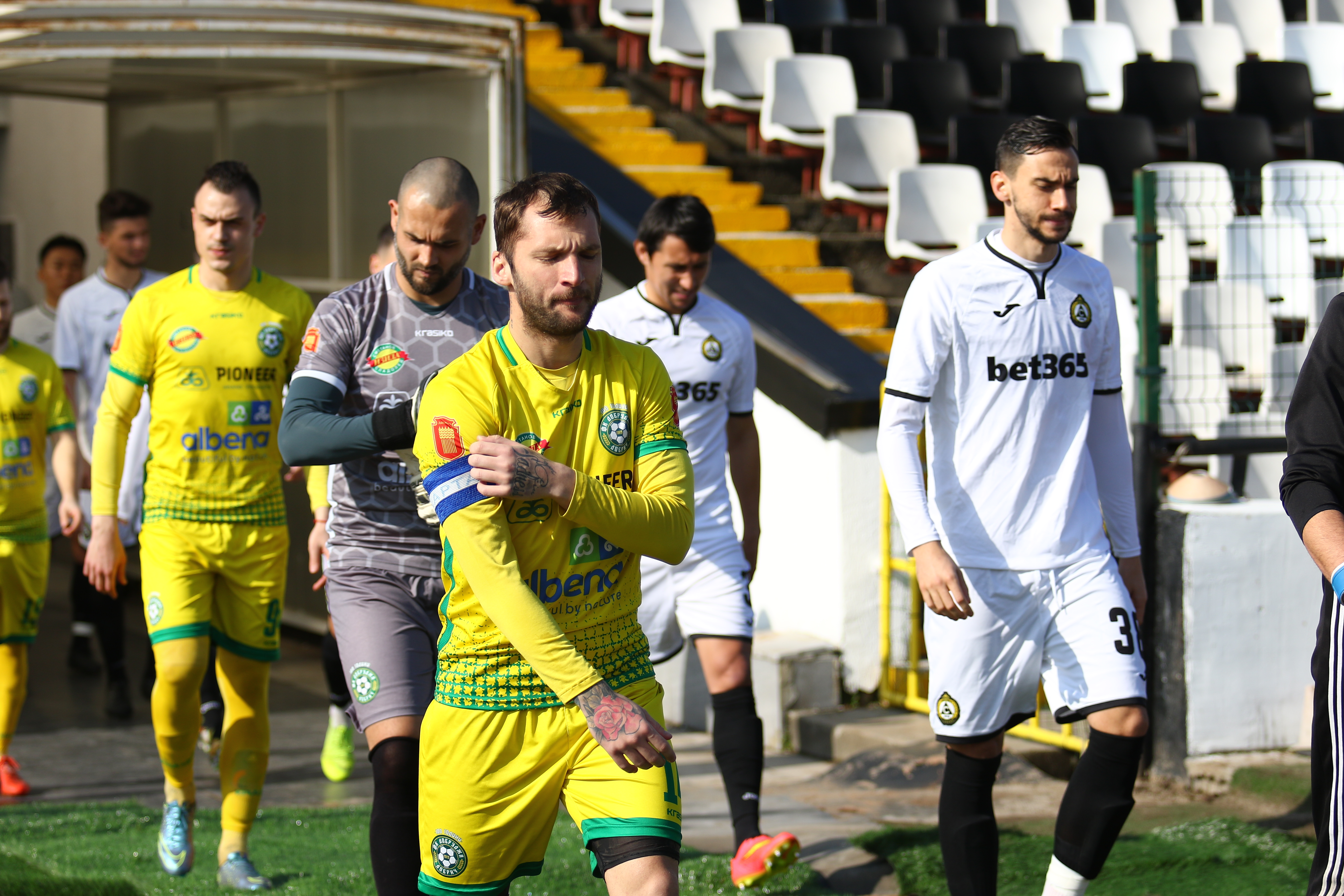 FC Dobrudzha (Bulgarian: ФК Добруджа) is a Bulgarian football club based in Dobrich, that competes in the Second League, the second flight of Bulgarian football.